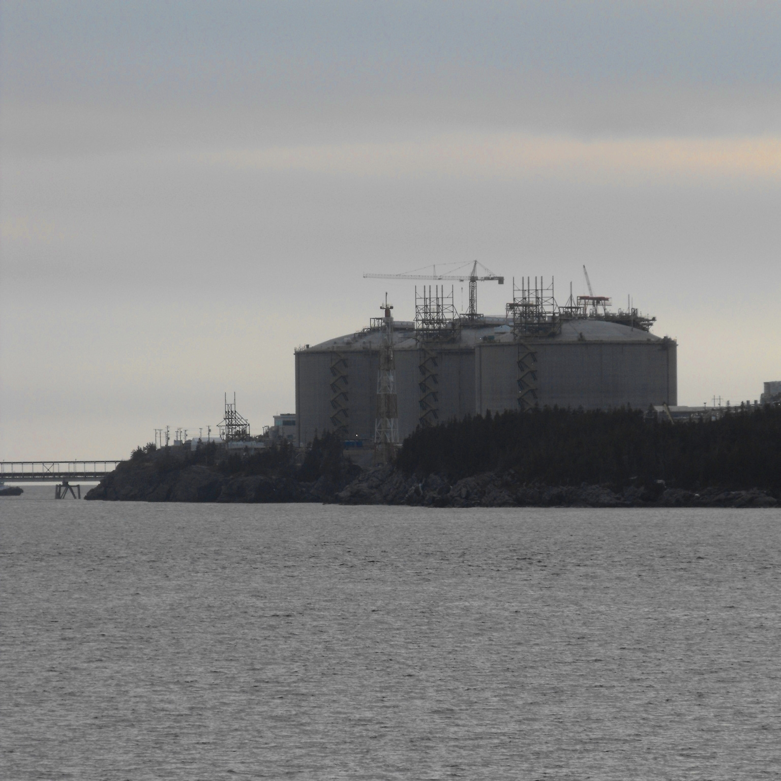 Canaport LNG Terminal nearing completion, Saint John County, NB